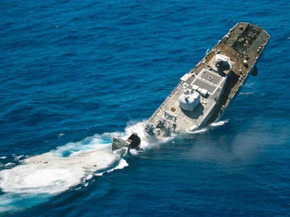 The decommissioned U.S. Navy guided-missile destroyer USS Buchanan (DDG-14) sinking in the Pacific Ocean off Hawaii after use as a target. She remained afloat after being hit by three AGM-114 Hellfire air-to-surface missiles, three Harpoon anti-ship missiles, and a 2,400-pound (1,100 kg) laser-guided bomb in the Pacific Ocean off Hawaii on 13 June 2000. She finally was scuttled on 14 June 2000 by the detonation of 200 pounds (91 kg) of explosives that had been placed aboard her.